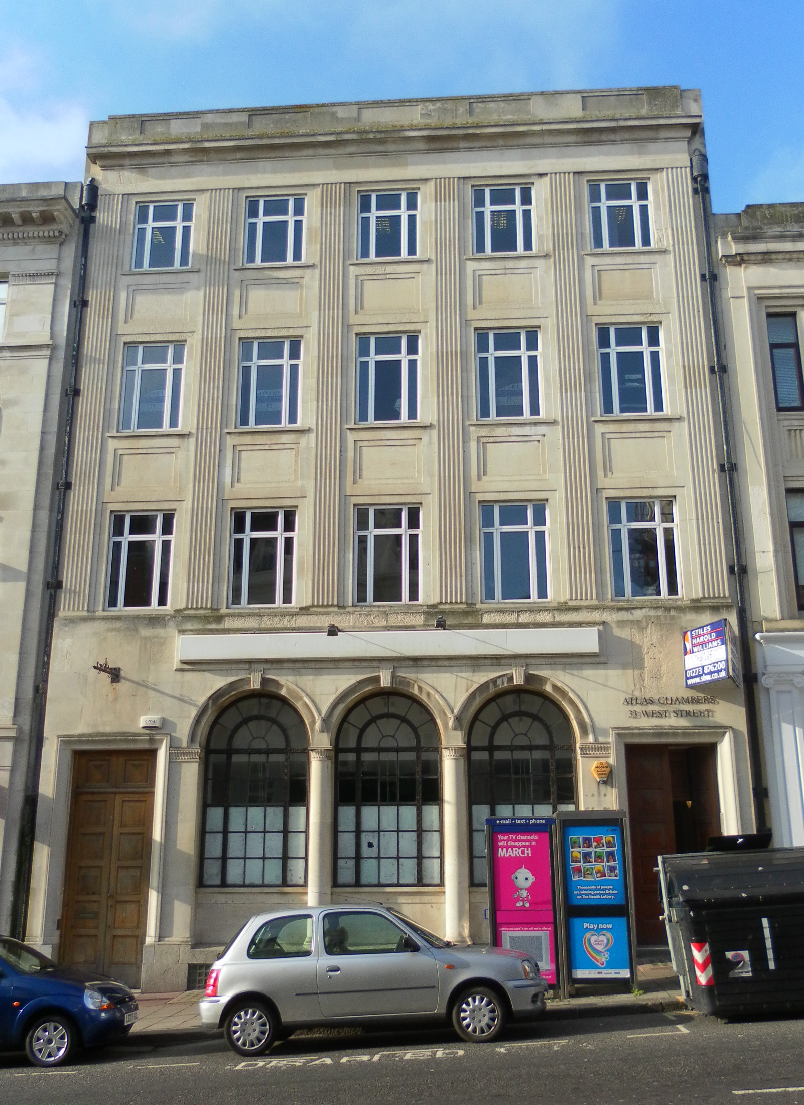 Atlas Chambers, 33 West Street, Brighton. Offices designed by the local architecture firm Clayton & Black.